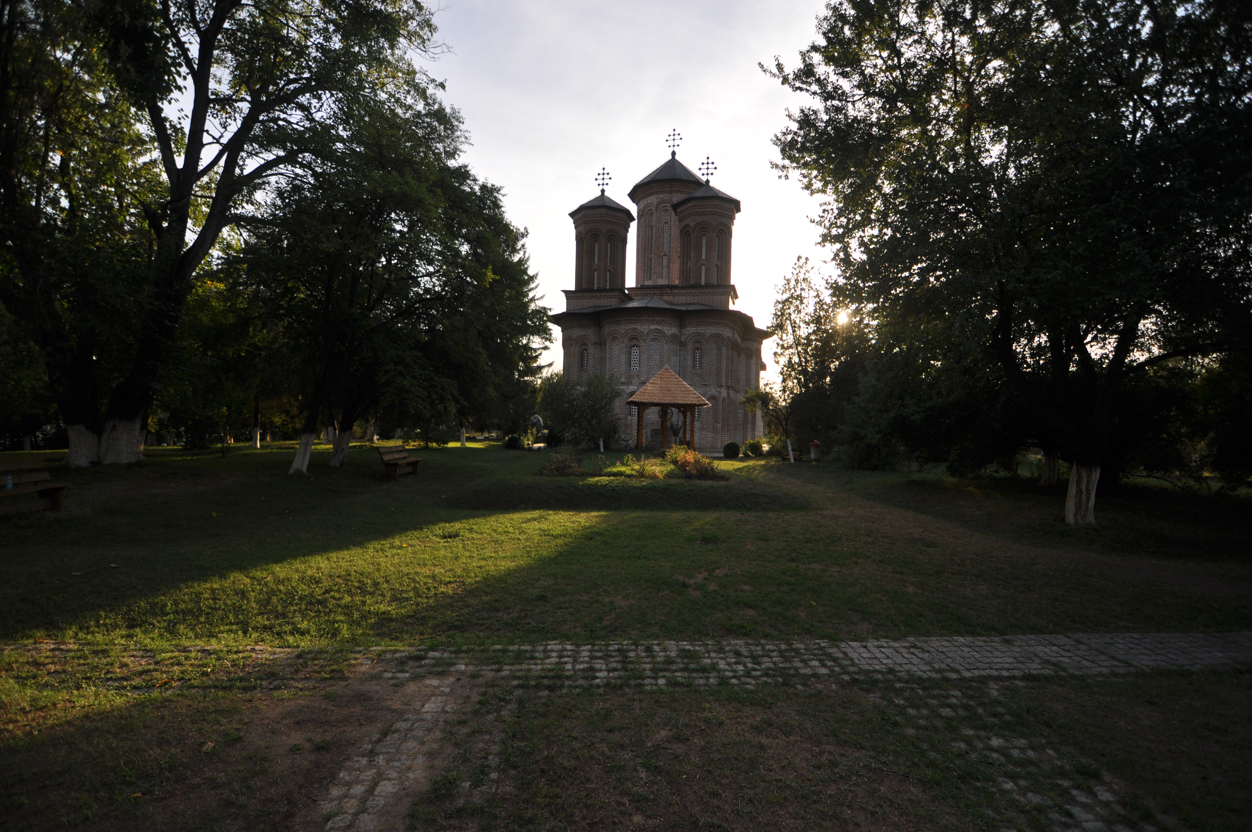 Snagov Monastery Biserica "Intrarea Maicii Domnului în Biserică" "The Presentation" Church [Entrance of the Theotokos into the Temple] construction from 1517, iconography from1563, other interventions 1815, 1904, 1941, 1953, 1966...